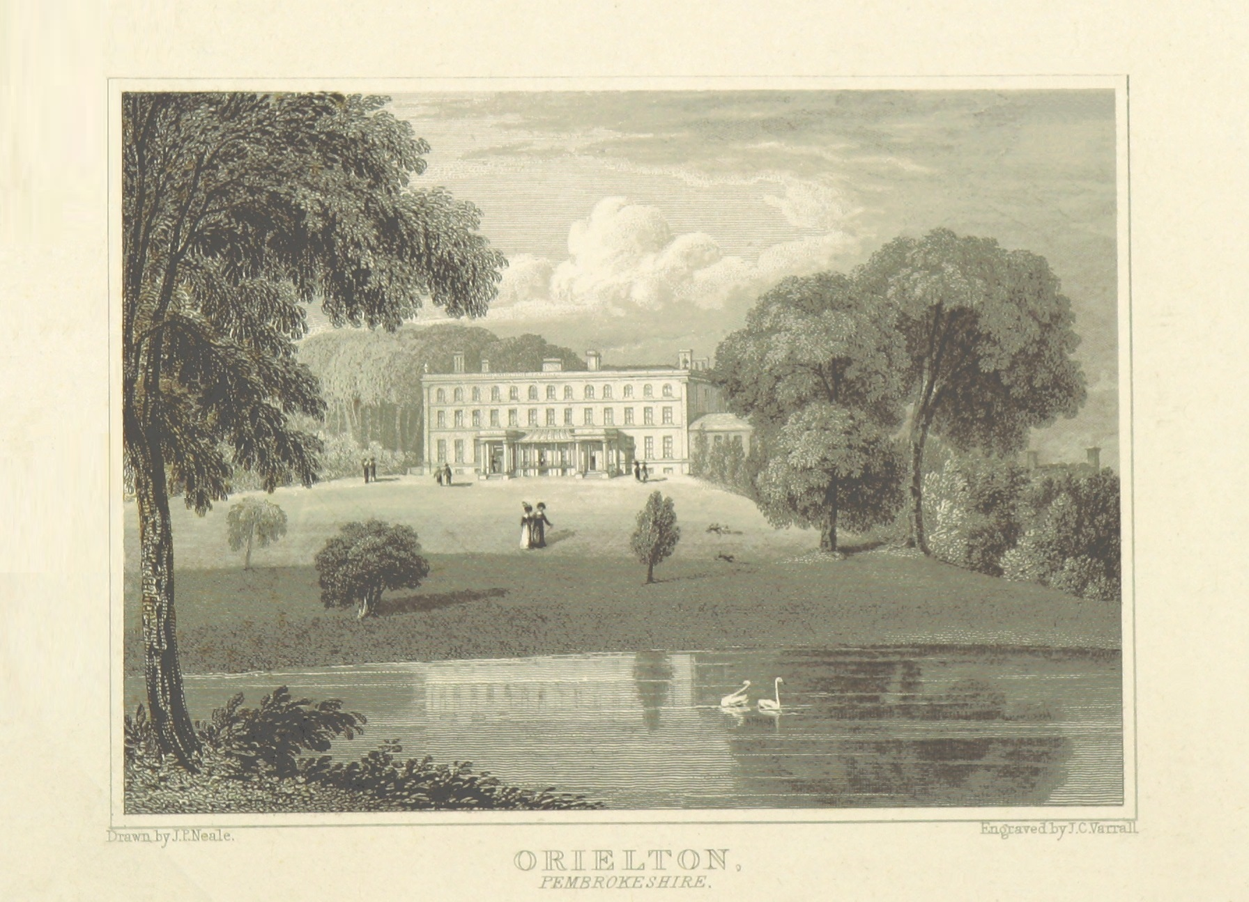 Engraving of Orielton, a historic house in Pembrokeshire, Wales.